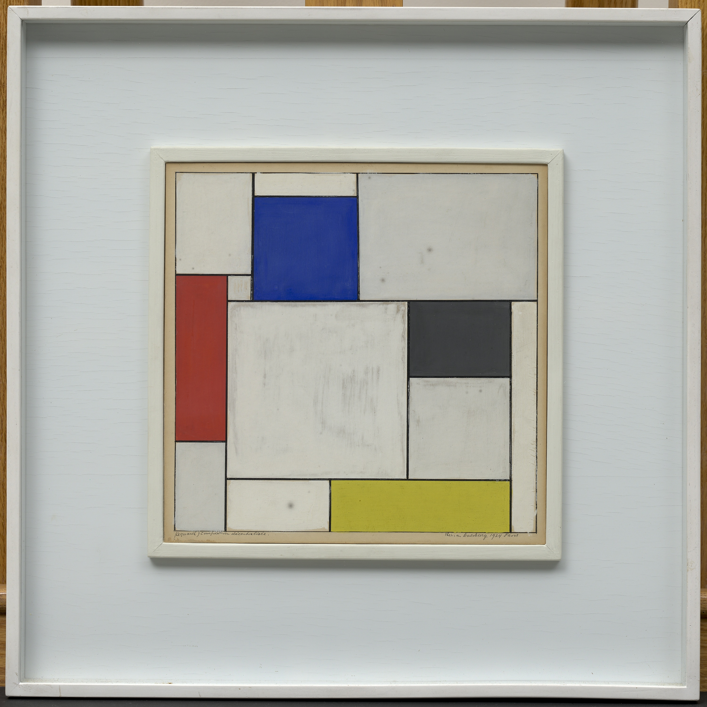 This file was provided to Wikimedia Commons by the Solomon R. Guggenheim Museum as part of a cooperation project. The Solomon R. Guggenheim Museum provides images depicting artworks which are public domain or licensed under a free license.